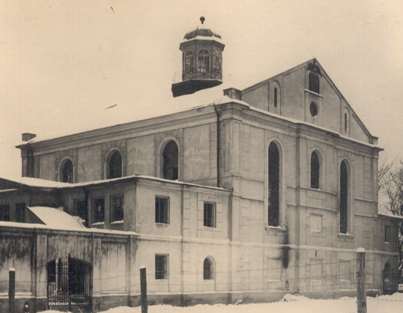 Great Synagogue in Kalisz